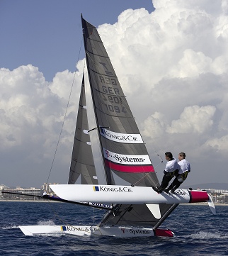 Roland Gäbler sailing on a catamaran